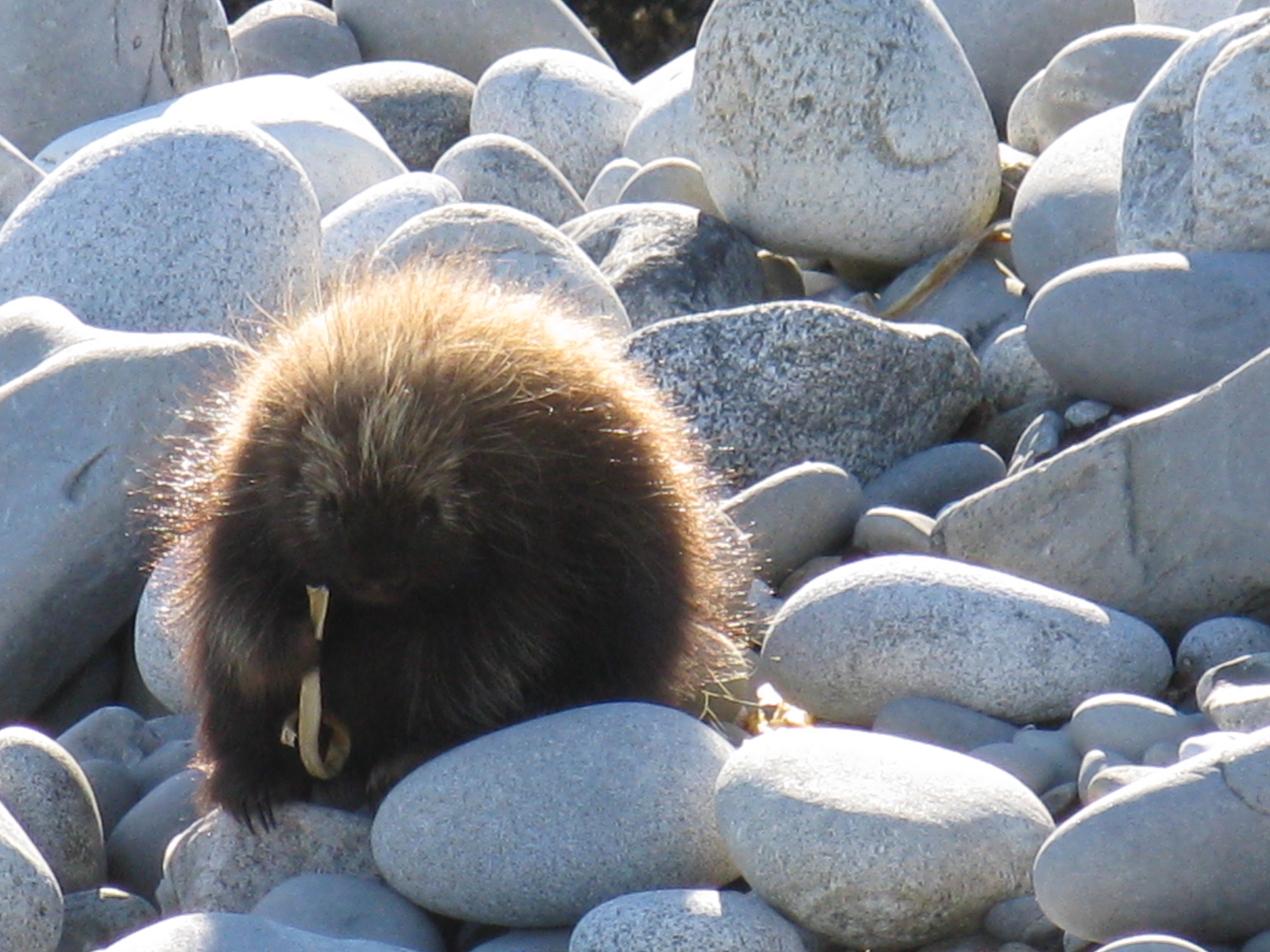 A porcupine (Erethizon dorsatum) in Kejimkujik National Park